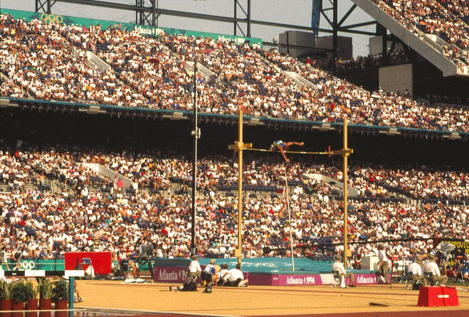 1996 Atlanta Olympics--track and field. Olympic Stadium. Crowd scene. Pole vault.